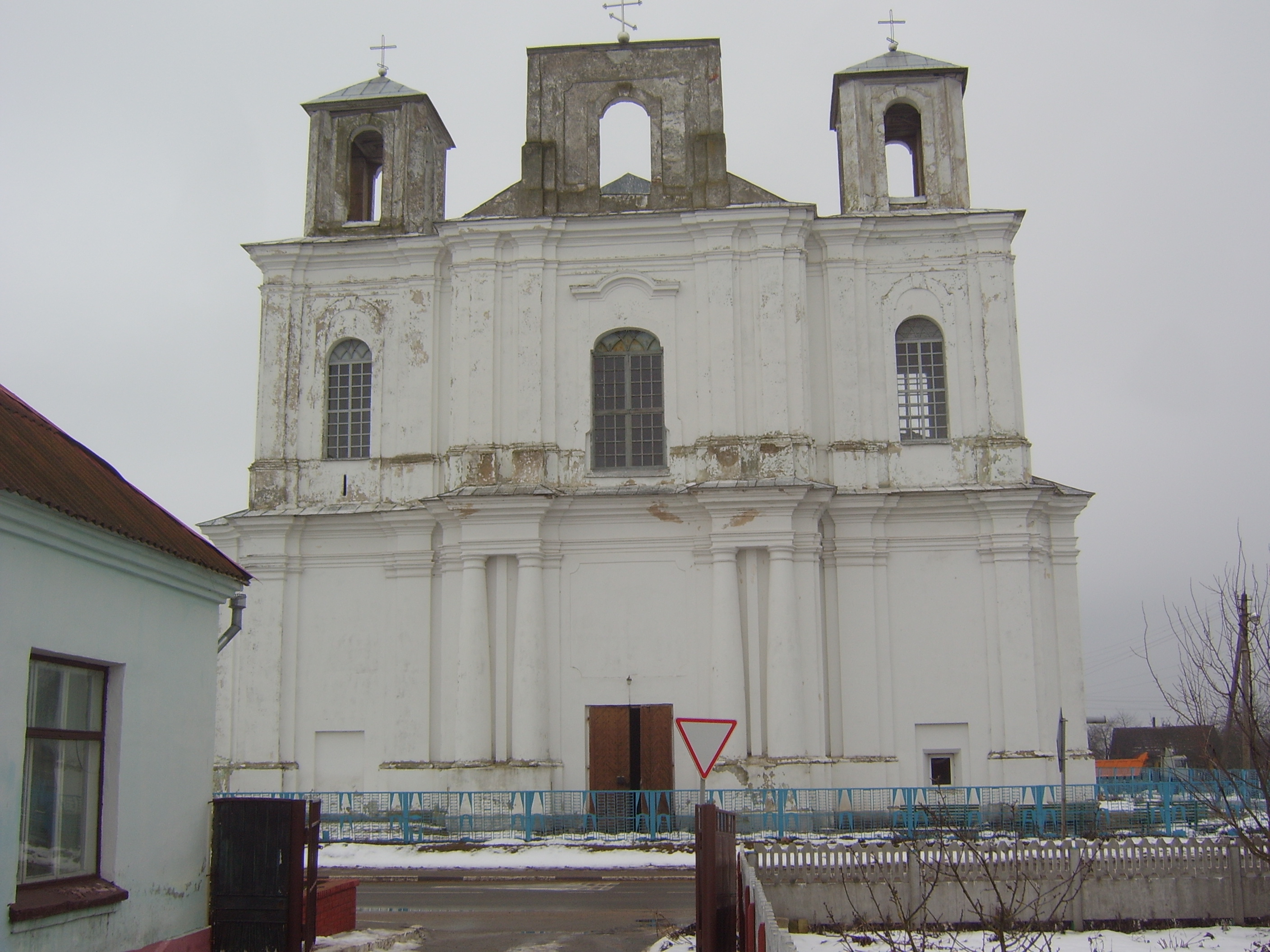 Belarus. Stalovichy. Orthodox church of the Assumption. Old church (1740) of Sovereign Military Order of Malta.